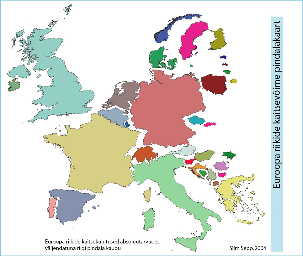 Defense capability map of Europe. Country areas are proportional to absolute military expenditures.